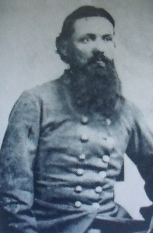 Photo of the Confederate Colonel Edward Warren that fought for the Confederate States of America and died 1864.